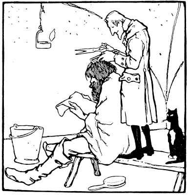 Illustration by Otto Ubbelohde to the fairy tale The Devil's Sooty Brother